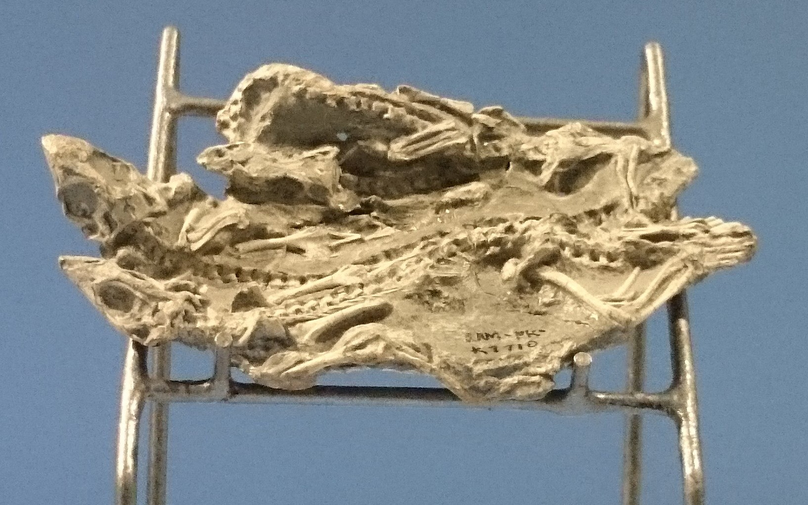 SAM K7710, five fully articulated skeletons of juvenile (not fully grown) individuals of the Upper Permian early diapsid reptile Youngina, preserved in life position, huddled head to tail in an underground burrow. Because they are all of the same age it is assumed that they are hibernating brood. The longest individual is almost 1 m long. The fossil comes from the farm Leeukloof 43 in the Western Cape province, from beds of the Teekloof Formation (Tropidostoma assemblage zone, Wuchiapingian).[1] ↑ R. M. H. Smith, S. E. Evans (1995): An Aggregation of Juvenile Youngina from the Beaufort Group, Karoo Basin, South Africa. Palaeontologia Africana 32:45-49 (PDF, complete volume)